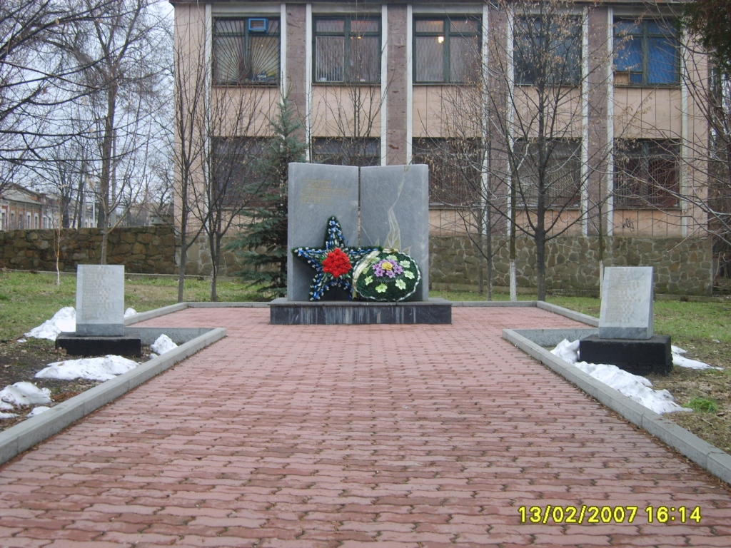 Мемориал "Жертвам Чернобыля"